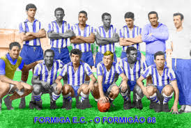 Formigão 68